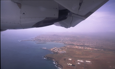 An aerial view of Praia, São Tiago Island, Cape Verde